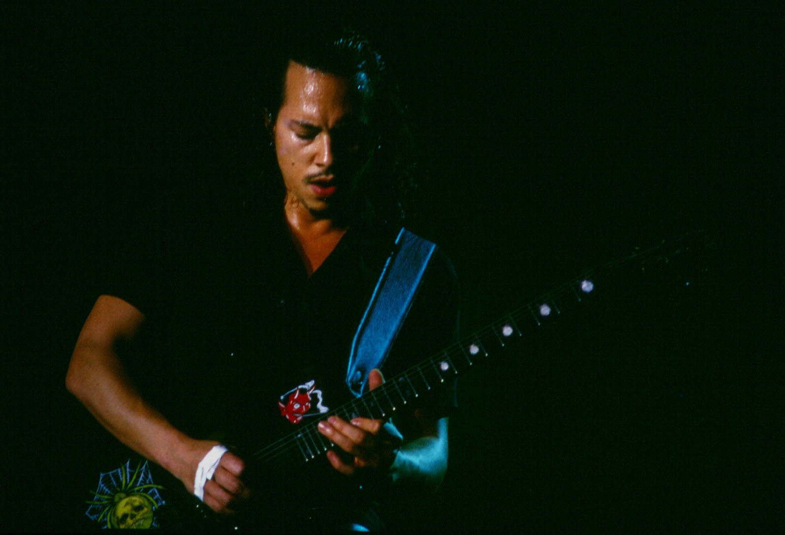 Kirk Lee Hammett, performing the "Master of Puppets" solo in the late 1990s